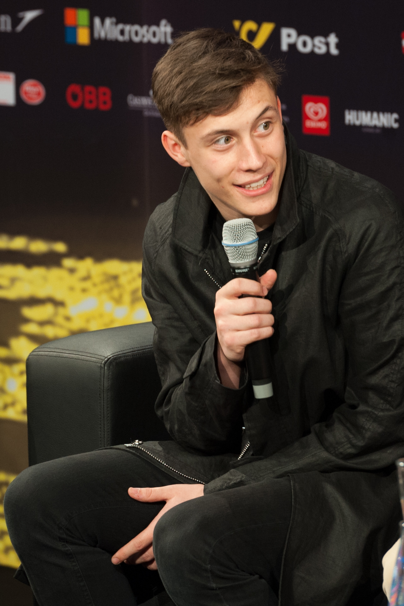 Eurovision Song Contest Vienna 2015: Loïc Nottet